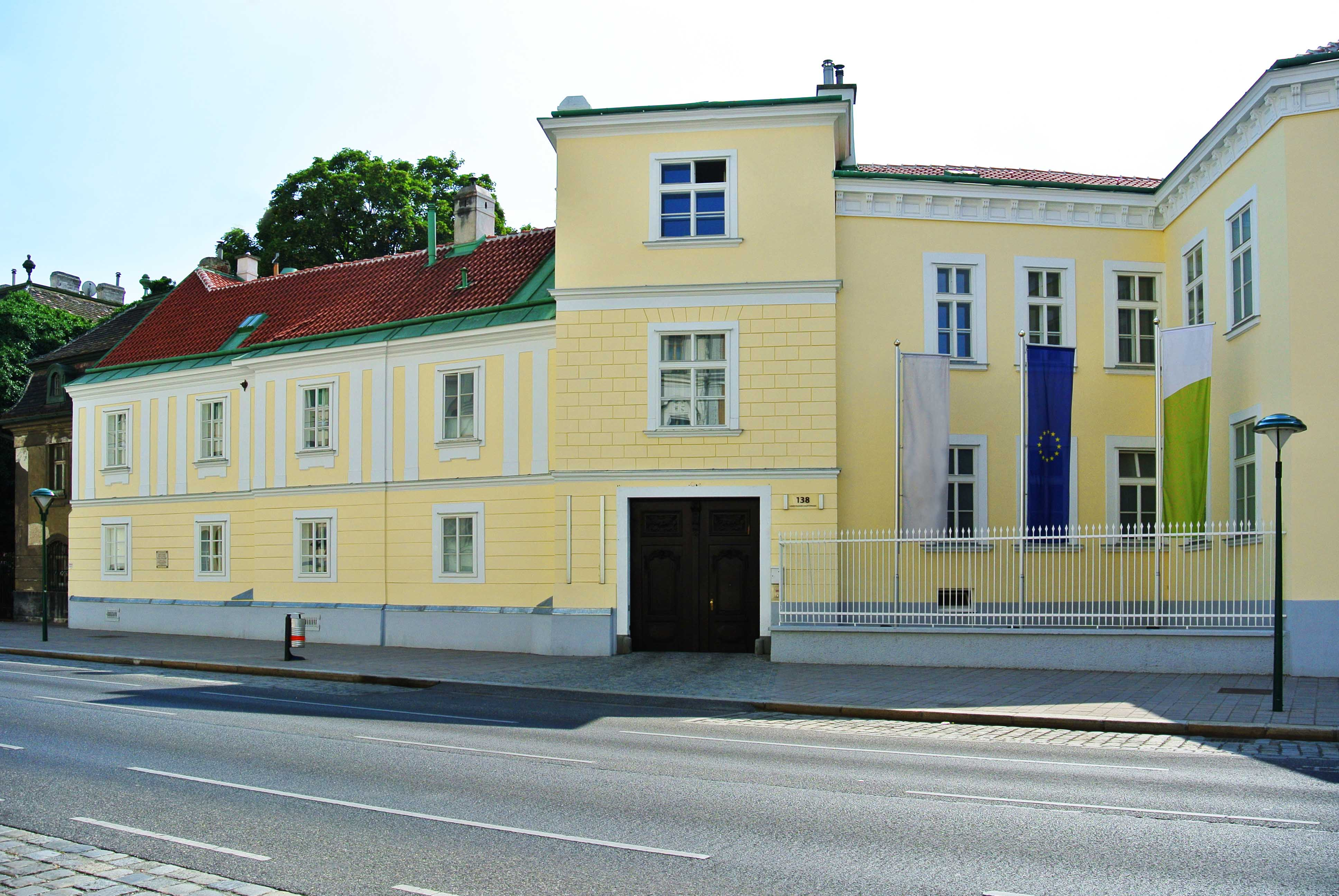 Koloman Moser (born March 30, 1868 in Vienna; † October 18, 1918 in Vienna), was an Austrian painter, graphic artist and craftsman. Commemorative plaque for the artist Koloman (Kolo) Moser House Landstraßer Hauptstraße 138 in Vienna-Landstraße. Text of the plaque 1905-1918 lived in this House Professor Kolo Moser 1868-1918 Arts and crafts school secession Vienna workshops